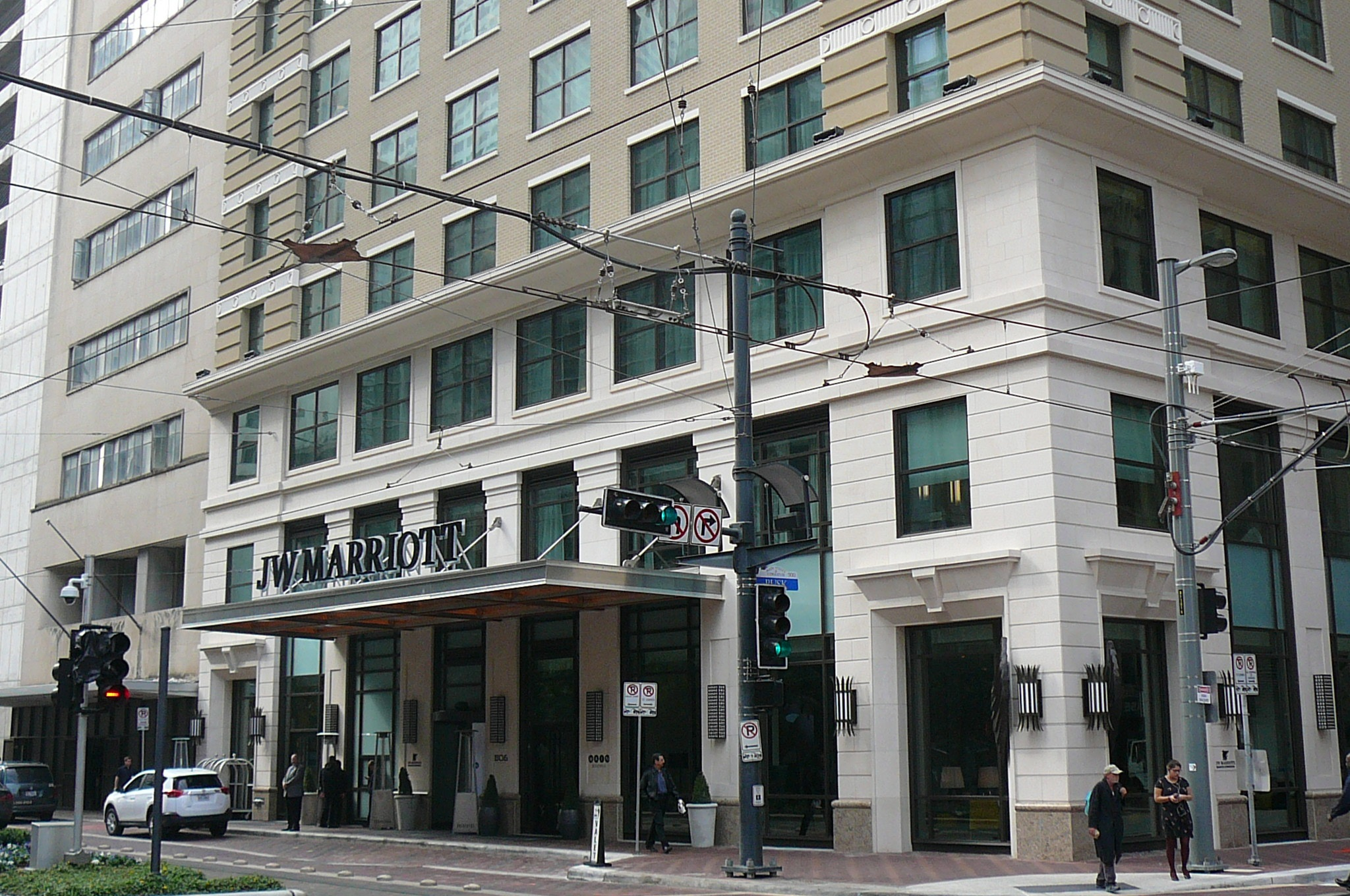 JW Marriott Downtown Houston, Main Street side